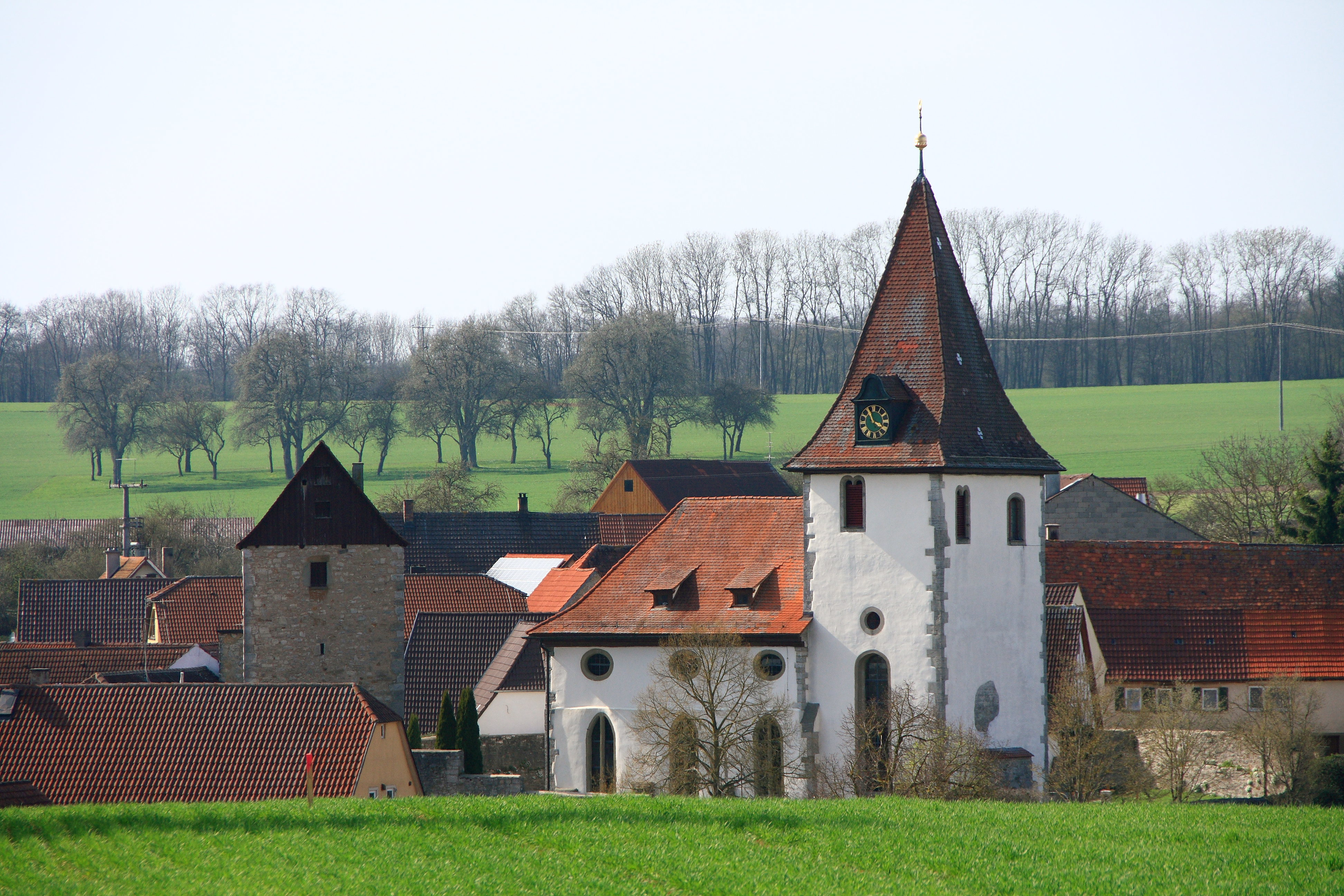 View to Wildentierbach, part of Niederstetten, with the fortified church.